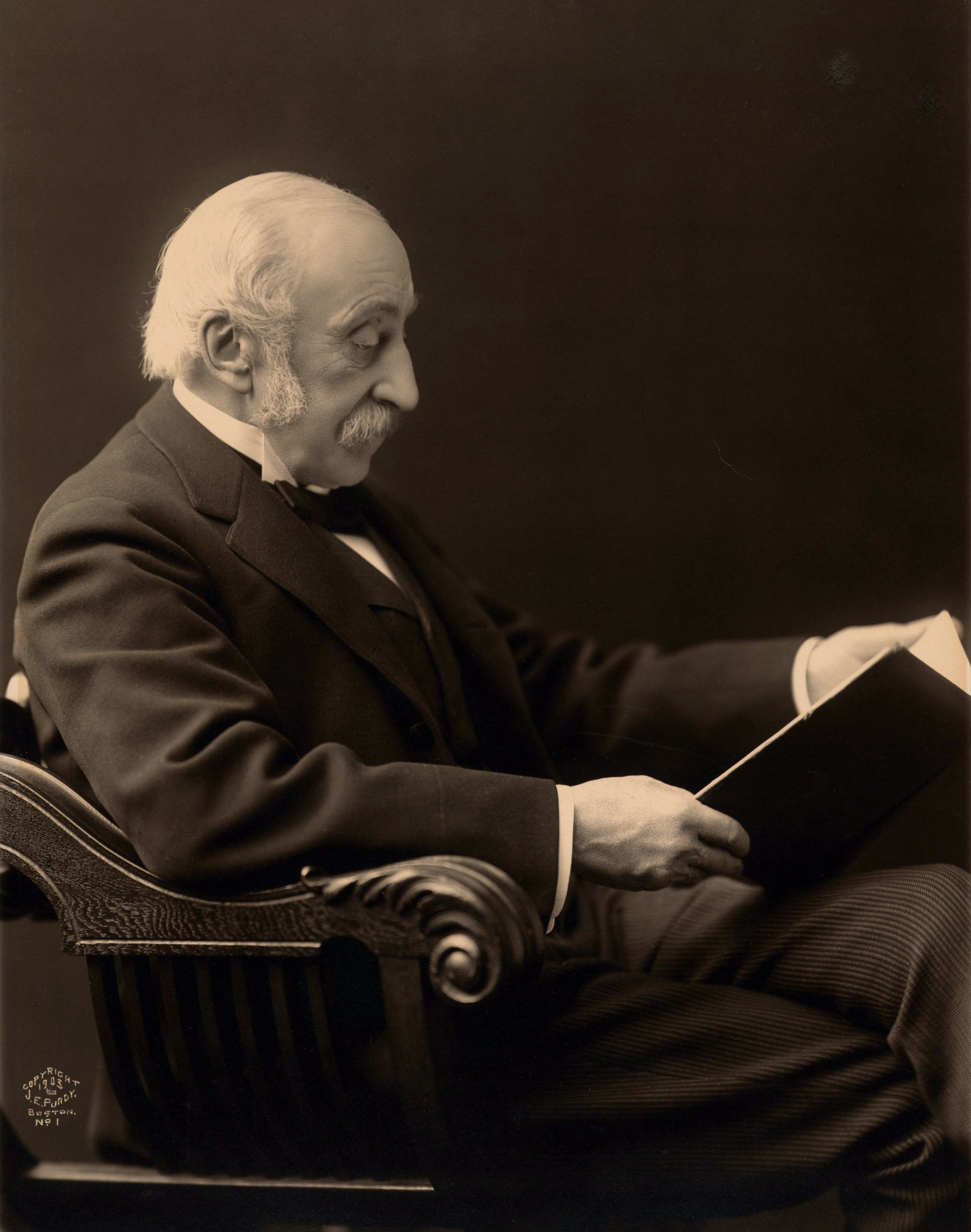 Photograph of Charles Eliot Norton (1827-1908), reading a book,1903. Photographer: J.E. Purdy & Co.,Boston (Mass.). Acquisition Information: Gift of Miss Theodora Sedgwick; received: 1909, March 16. Found in Widener Library Vault, Fall 2000. Portrait File, Houghton Library, Harvard University